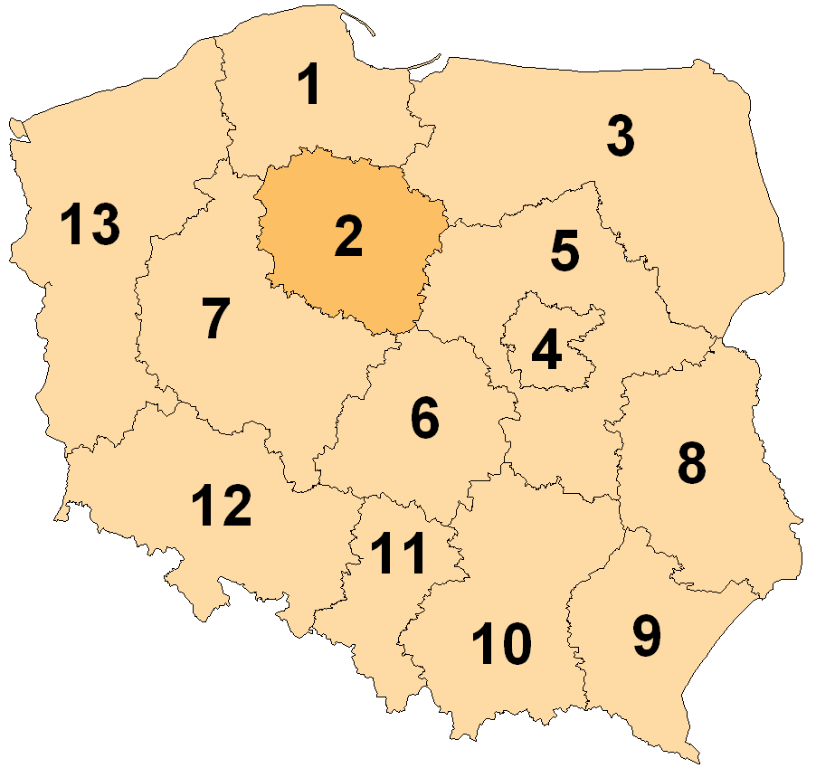 Kuyavian-Pomeranian (European Parliament constituency) - European Parliament constituencie in Poland